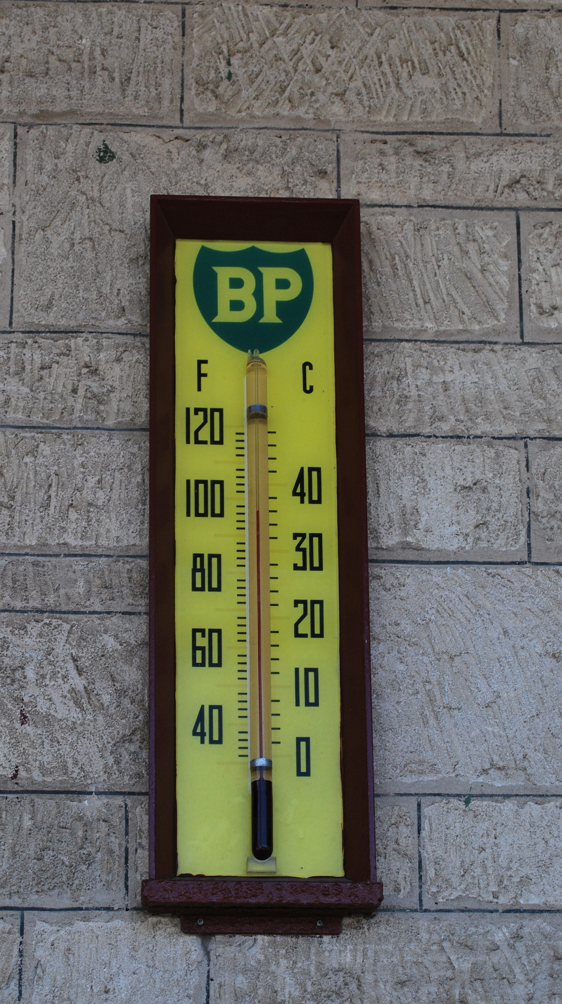 A thermometer on an external wall at Millicent, South Australia